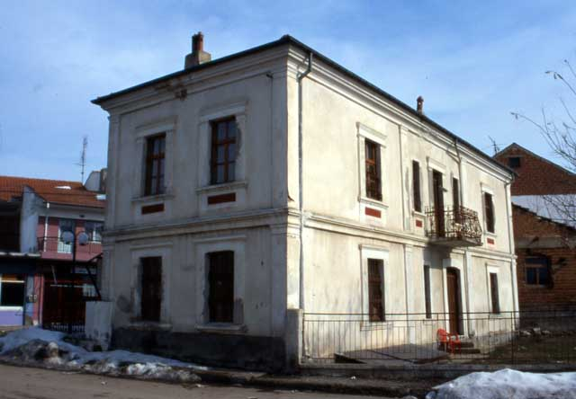 External view, image from the Folklore Collection, Armenochori, West Macedonia, Greece